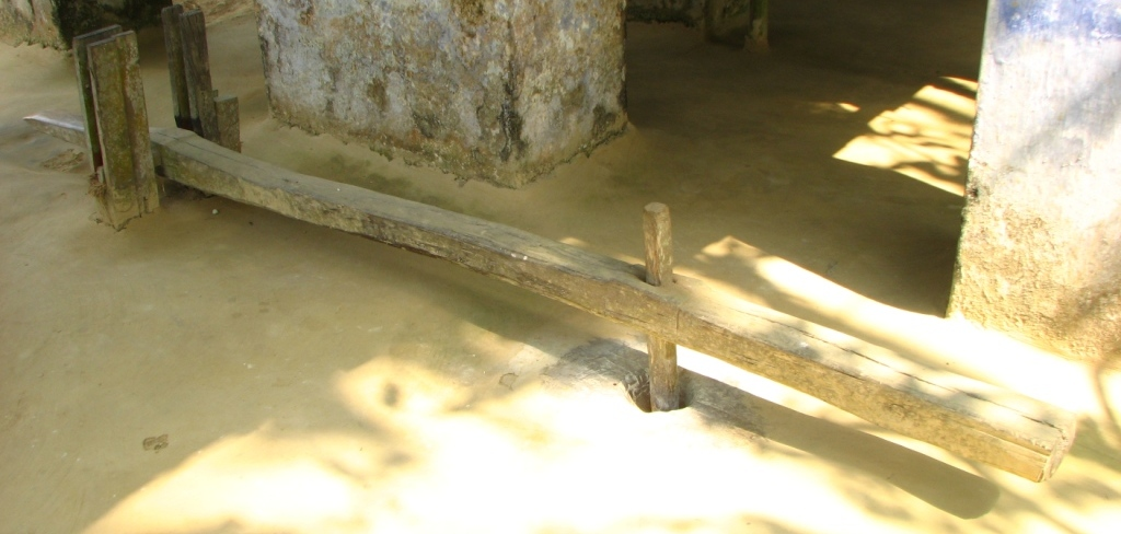 Dhenki of Assam. This photograph was taken at a village called "Mothaoni" in Dibrugarh district of Assam, India.অসমীয়া: নিচেই ওচৰৰ অংশ "ফিছা"ৰ পৰা অগ্ৰভাগলৈ থকা অংশৰ দৃশ্য